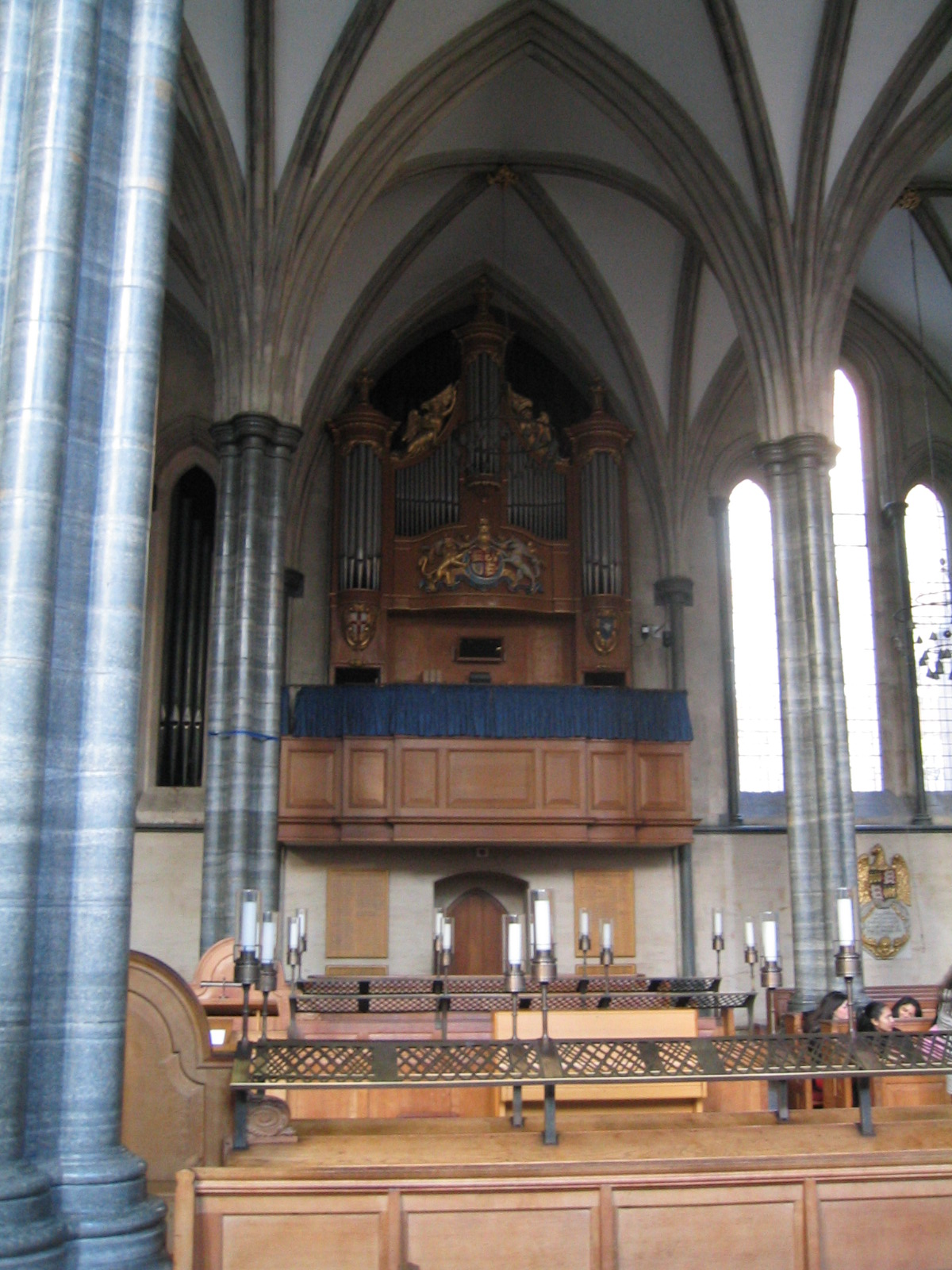 Temple Church in London - the organ